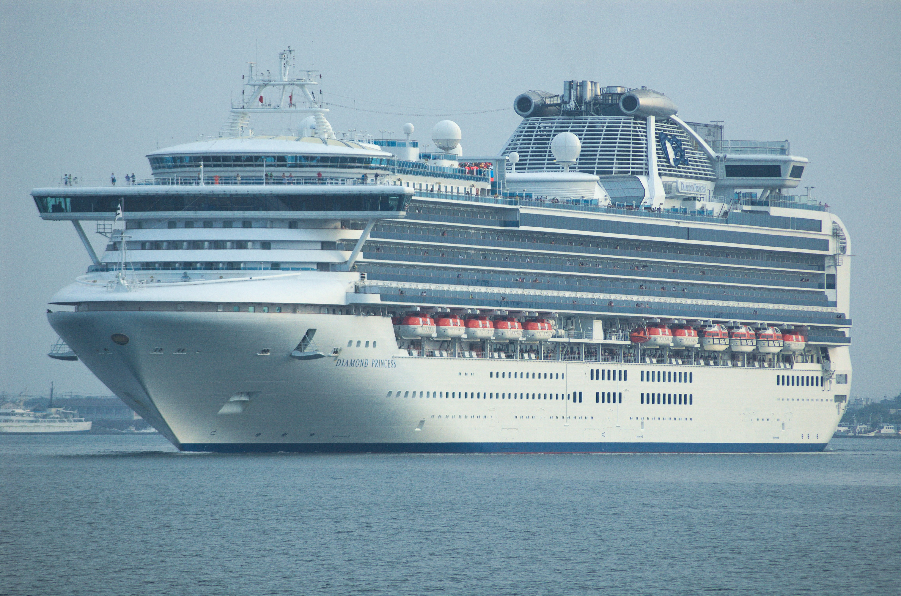 Diamond Princess cruise ship, Sakaiminato, Tottori Prefecture, Japan.